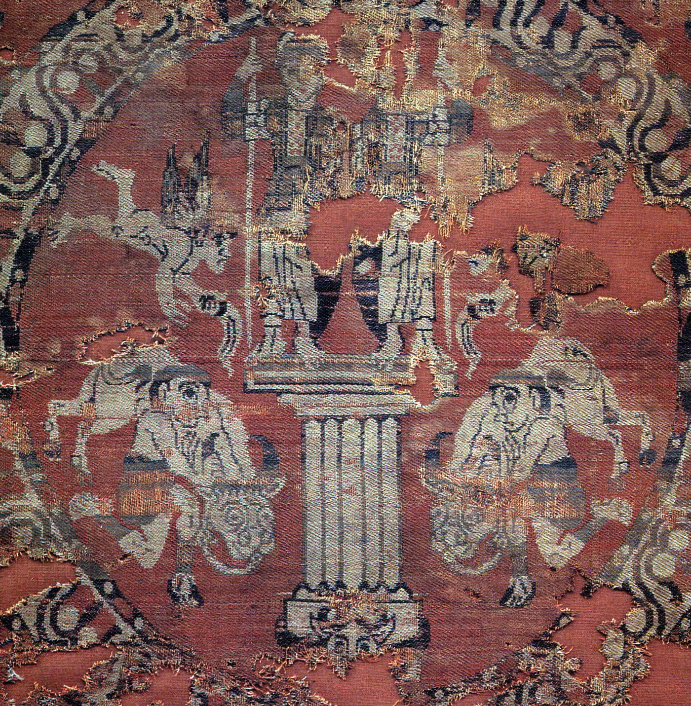 Silk cloth with image of an offering of animals brought to two figures (Castor and Pollux?) standing on a pillar. Byzantium, 7th/8th century. Treasury of the Basilica of Saint Servatius (Maastricht). Also fragments in: Musée Historique des Tissues (Lyon), Musée des Arts décoratifs (Paris), Kunstgewerbemuseum (Berlin), and Metropolitan Museum of Art (New York).